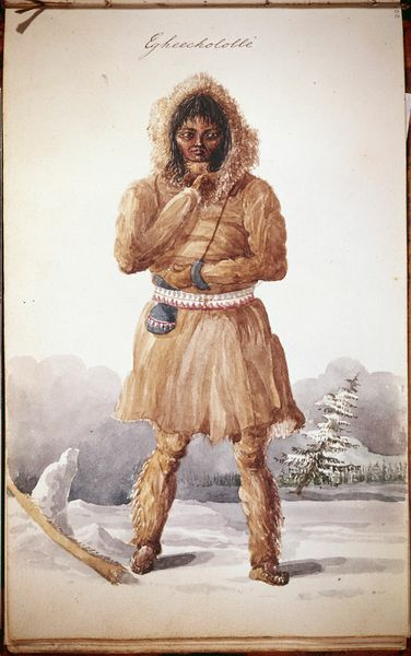 From George Back's, "Sketchbook: Views from Upper Canada along the McKenzies River to Great Bear Lake," December 1825 - March 1826.